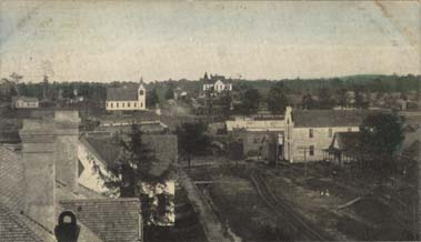 Birdseye view of Thomasville, Alabama before the fire of 1899.